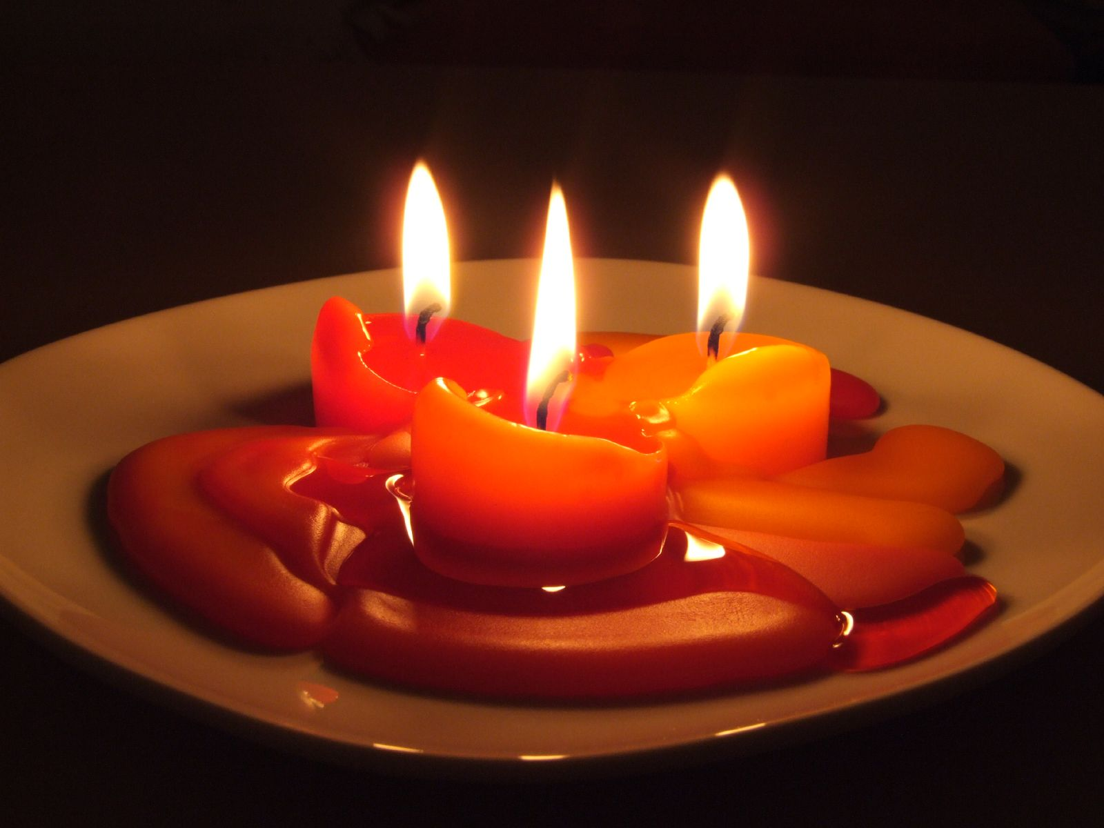 3 candles